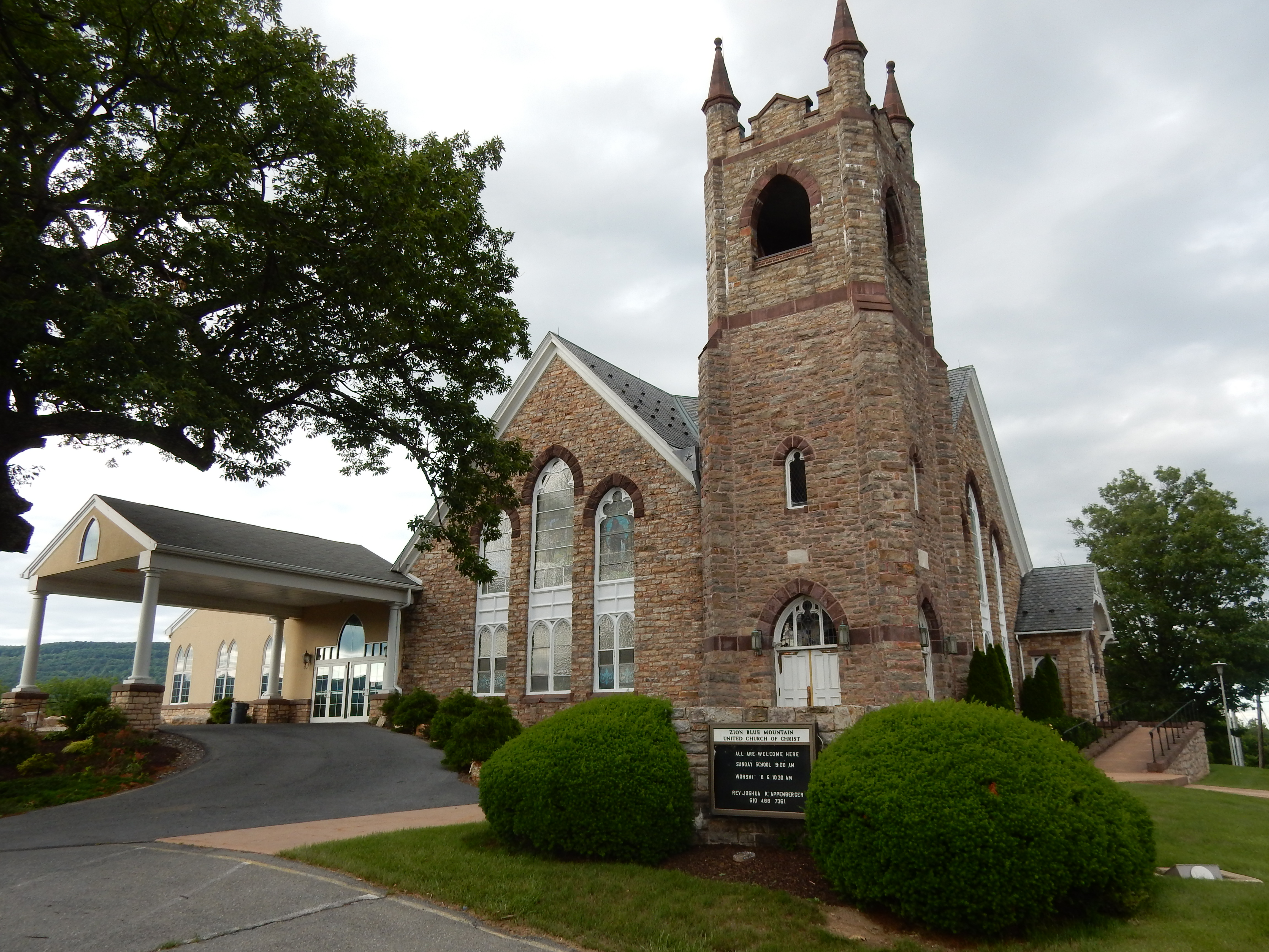 Zion Blue Mountain United Church of Christ on Old Route 22, Strausstown, Berks county, Pennsylvania.